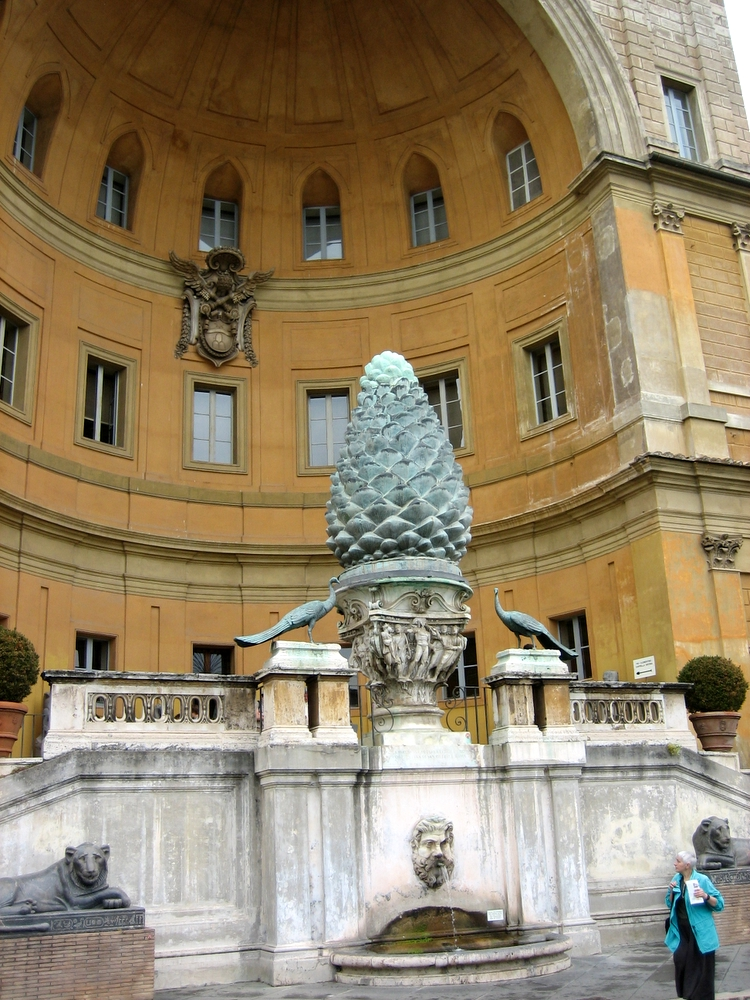 The Pigna in Cortile Belvedere Vatican Museums Native nameMusei VaticaniLocationVatican CityCoordinates41° 54′ 23″ N, 12° 27′ 16″ E Established1506Website control : Q182955 VIAF: 141443926 ISNI: 0000 0001 0807 3165 GND: 235092-0 SUDOC: 032013795 BNF: 12312427s